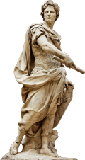 Julius Caesar. Commissioned in 1696 for the Gardens of Versailles, to go with the Annibal by Sébastien Slodtz.